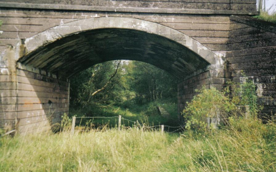 The old Station at Uplawmoor on the Caledonian Railway Company's Ardrossan line to Neilston and Glasgow in 2006.